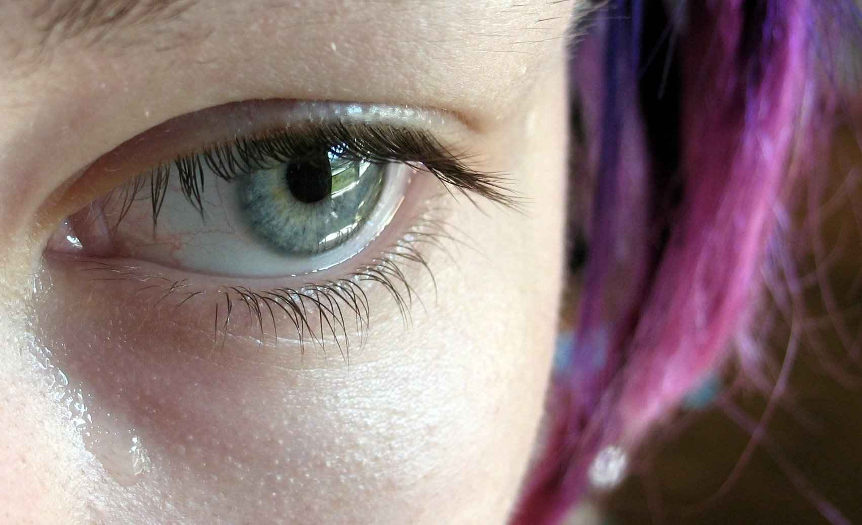 tear